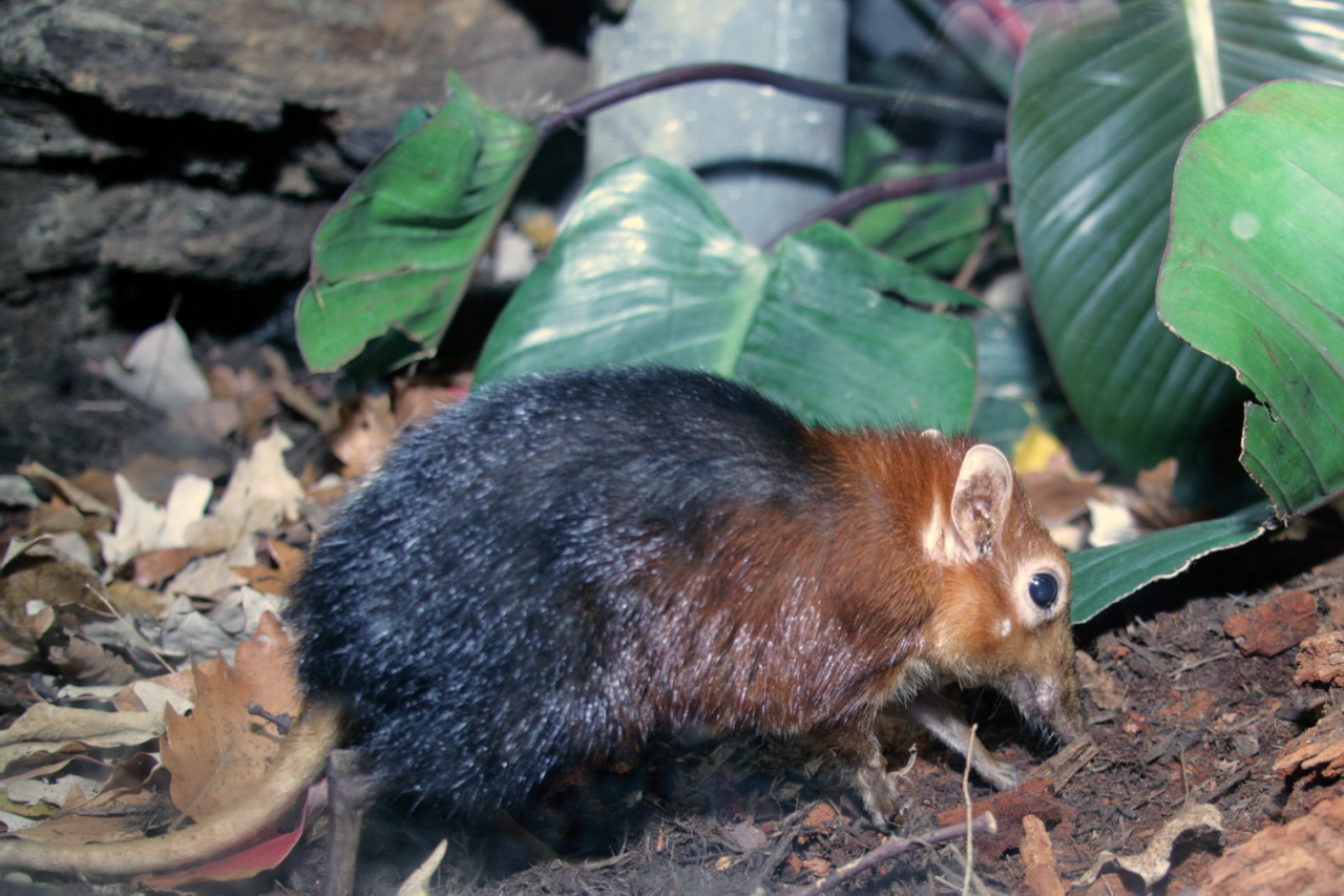 While most of the small elephant-shrews are active primarily at dawn and dusk (the technical word is crepuscular), the giant elephant-shrews are diurnal%u2014active during most of the day. At the Zoo, you will see our giants foraging for crickets and mealworms, and gathering simulated leaf litter to form the nests that they rest in at night.